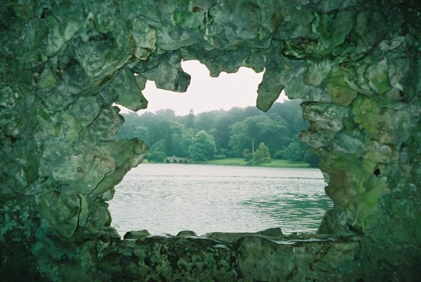 Inside The Grotto, Stourhead A similar picture to that of Neil Kennedy. This one shows the jagged stones making up the inside of the grotto. You need to be very careful not to hit your head around here. The grotto is entirely artificial, designed as one of the many delights to be explored by the original house guests at Stourhead House and still delightful today.